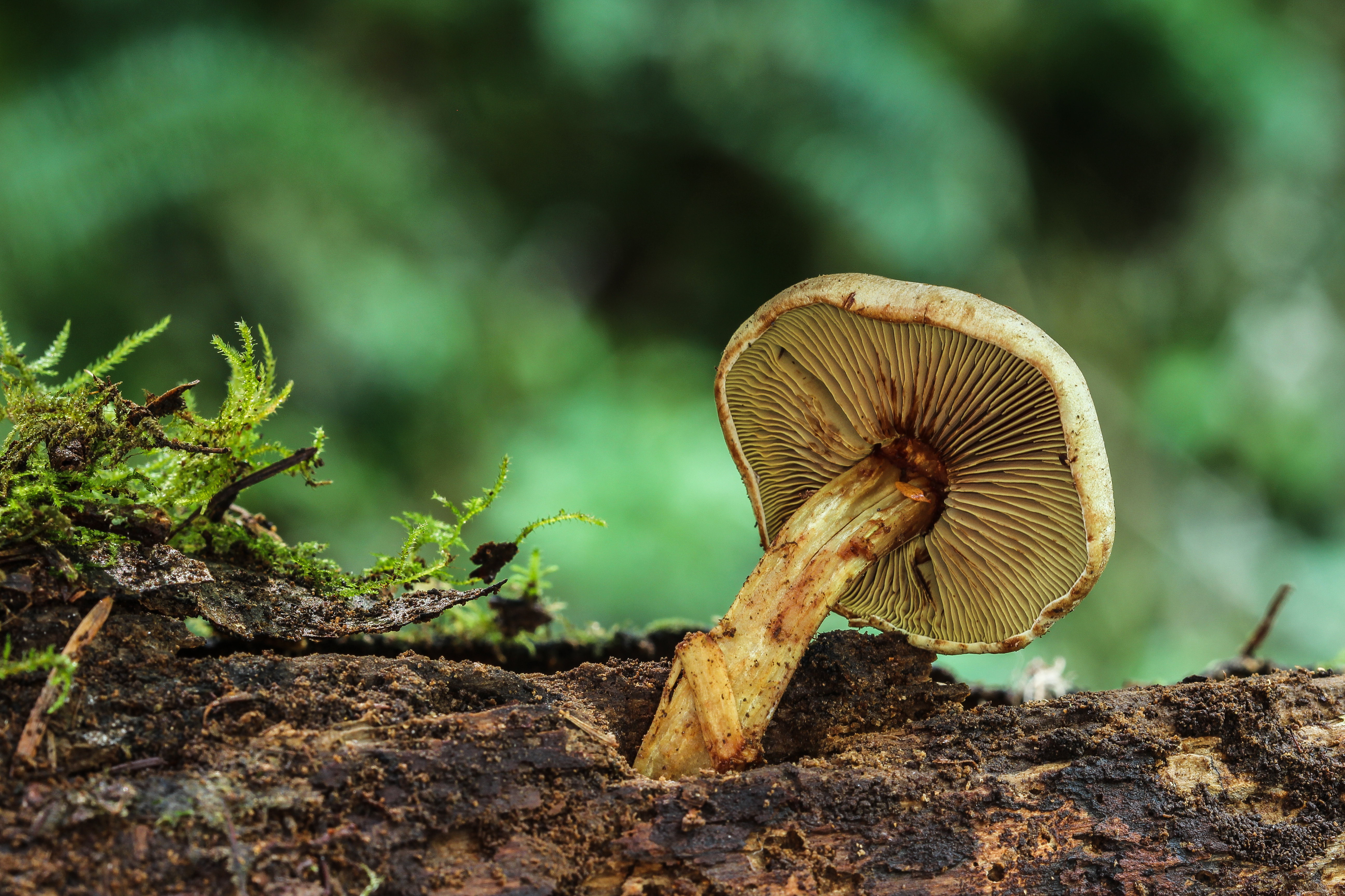 A fruit body of the saprophytic agaric fungus Gymnopilus punctifolius (Pk.) Singer. Photographed in Snow Creek Rd., Jefferson Co., Washington, USA.